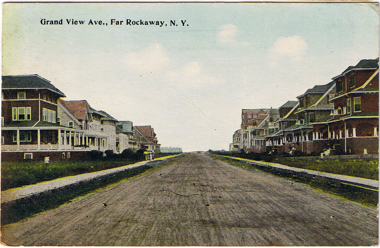 View of Grand View Avenue, Far Rockaway, Queens, New York. Published by S. Hirshberg, Rockaway Beach, L. I. The message on the back reads. "The beach is the finest here of any place I have been this year."